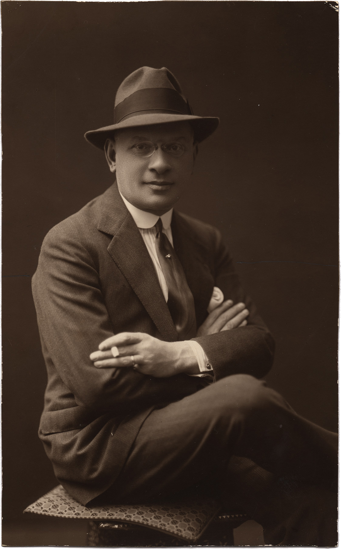 Portrait of Giuseppe Adami, librettist (1878-1946). Photo by unknown, before 1946.